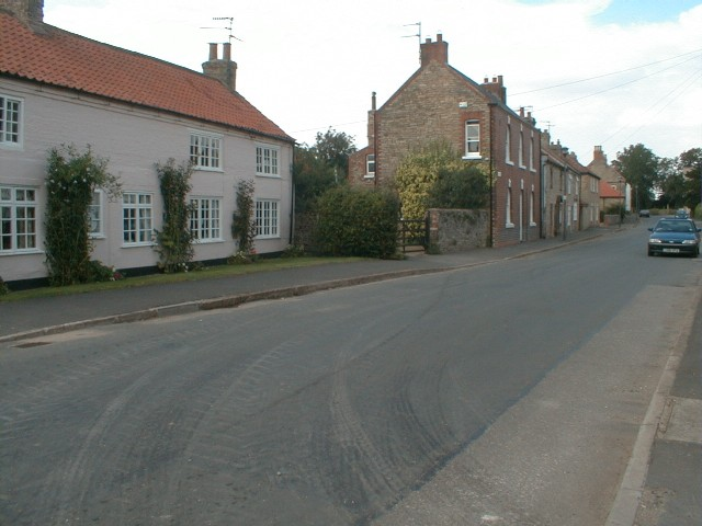 Main Street, Hotham, East Riding of Yorkshire Ben Stephenson, 2003.